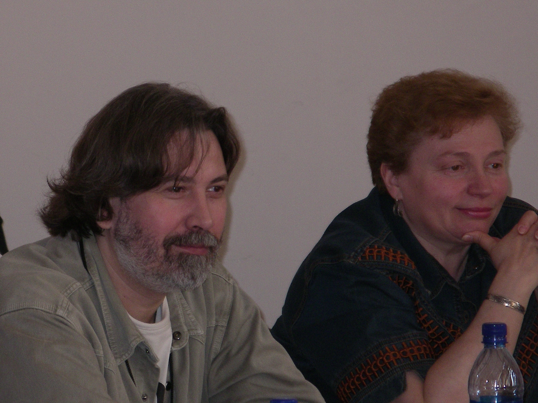 Playwright Vadim Levanov and PhD in Philology, theatre critic, expert of the theatrical award "The gold mask" Tatyana Zhurcheva seminar on "The Latest drama of the turn of the century: the problem of the conflict", which was held in the framework of the theatre festival "New drama. Togliatti" in April 2008. Togliatti state University, Togliatti, Russia.